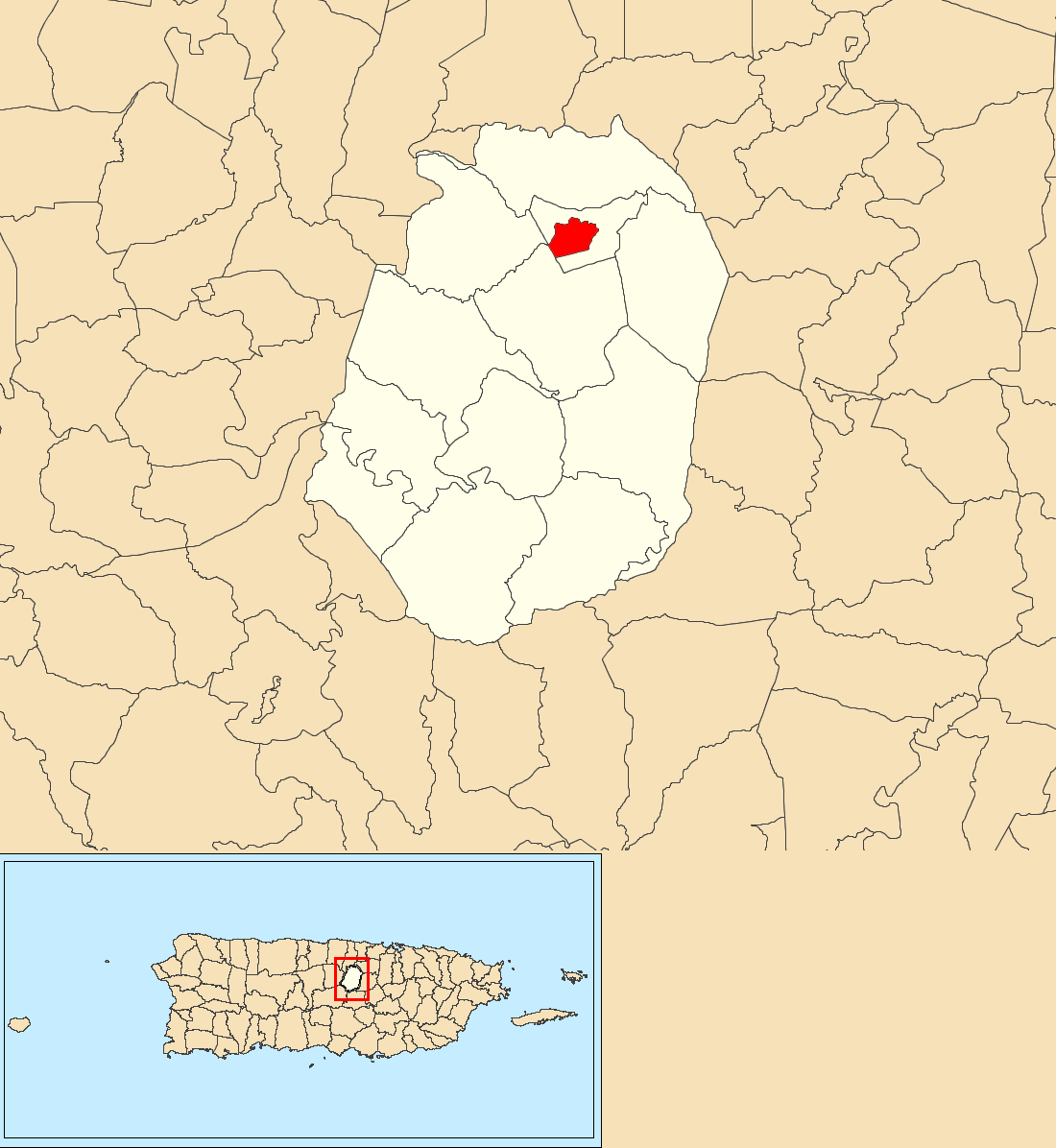 Corozal barrio-pueblo, Corozal, Puerto Rico locator map